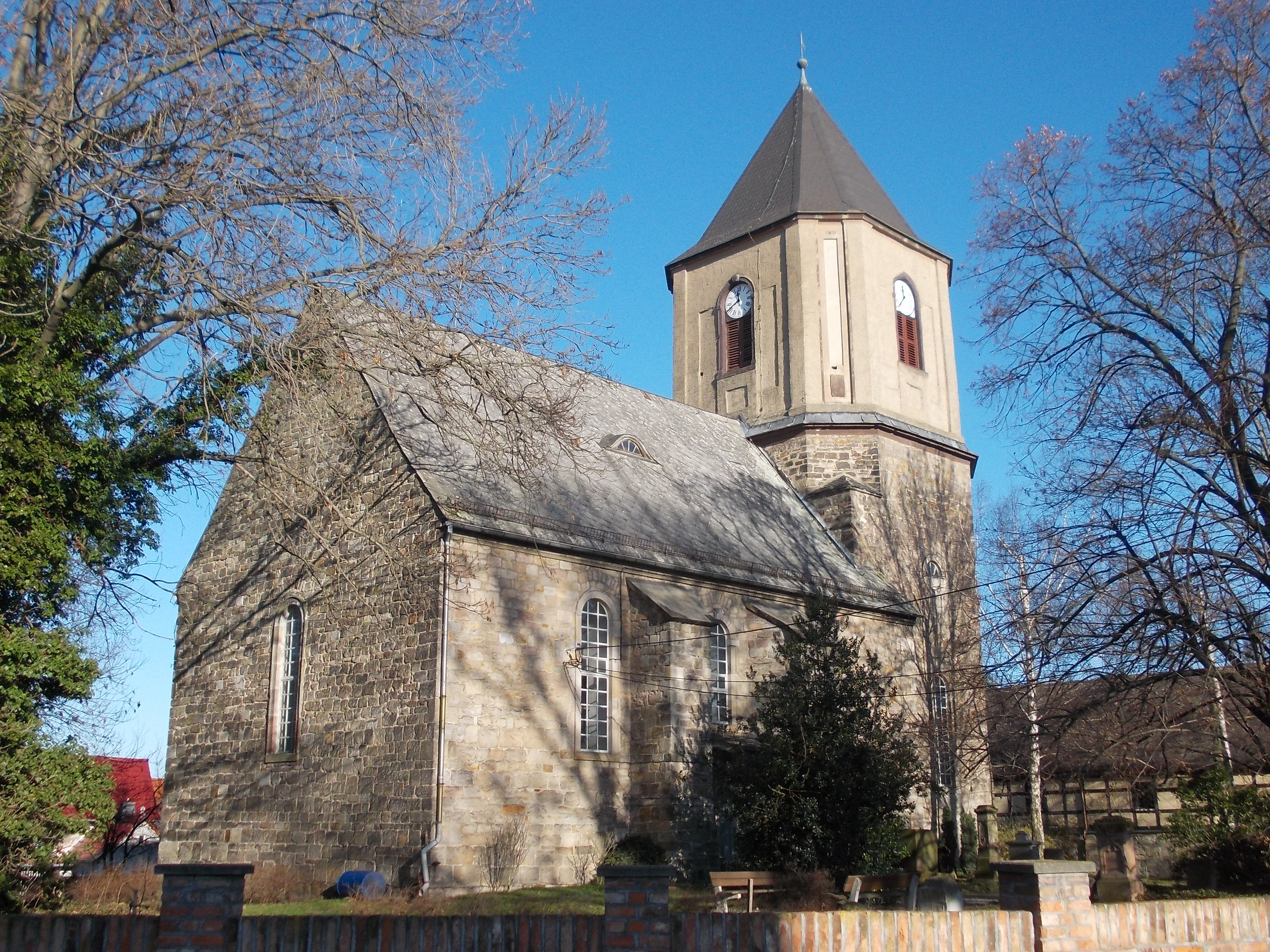 Protestant church in Reichardtswerben (Weissenfels, district: Burgenlandkreis, Saxony-Anhalt)